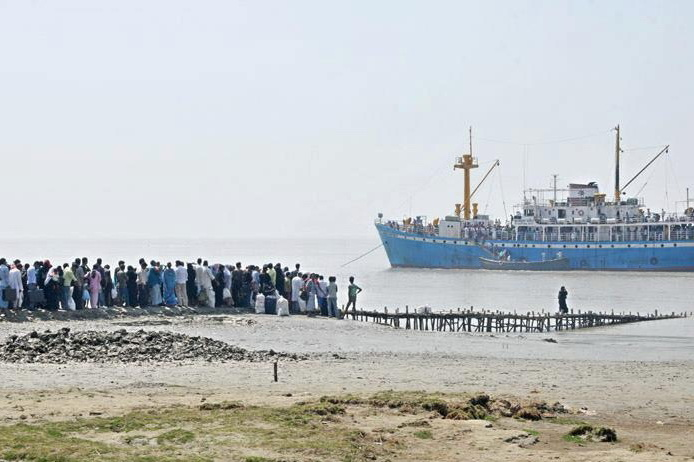 HPIM3916 by Rahat